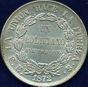 Bolivian 1 boliviano coin from 1872 - reverse